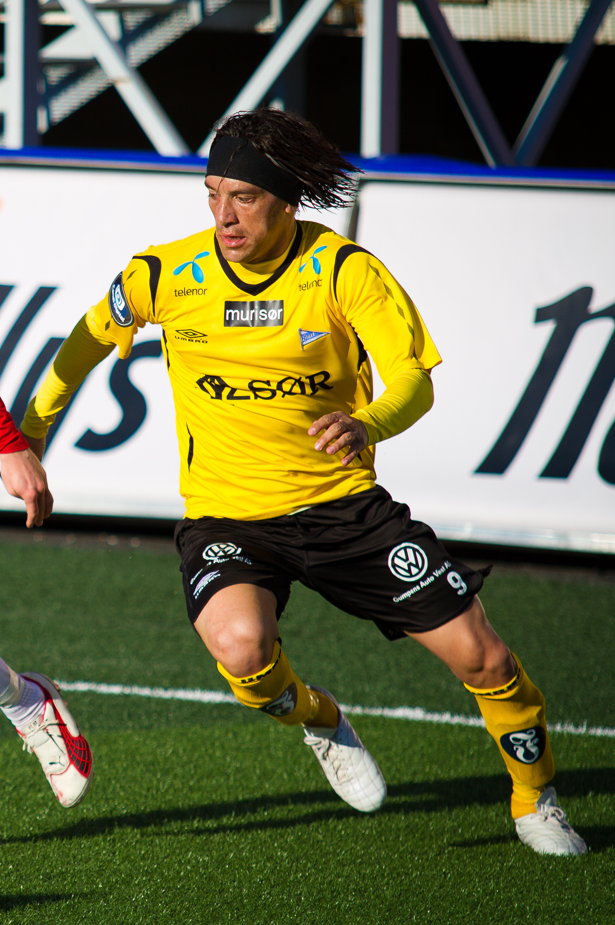 Christian Bolaños playing for IK Start.